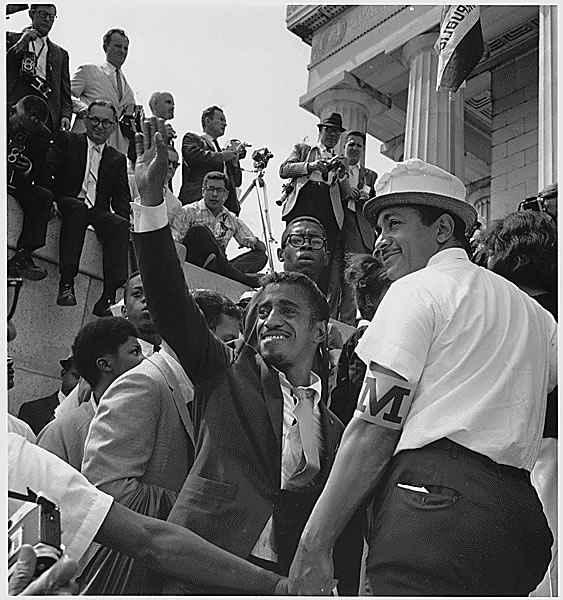 Civil Rights March on Washington, D.C. [Actor Sammy Davis, Jr. among the crowd.], 08/28/1963